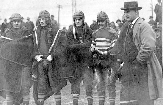 Centre players after the defeat of West Virginia. Left to right: Bill James, Ben Cregor, Norris Armstrong, Joe Murphy, Charles Moran